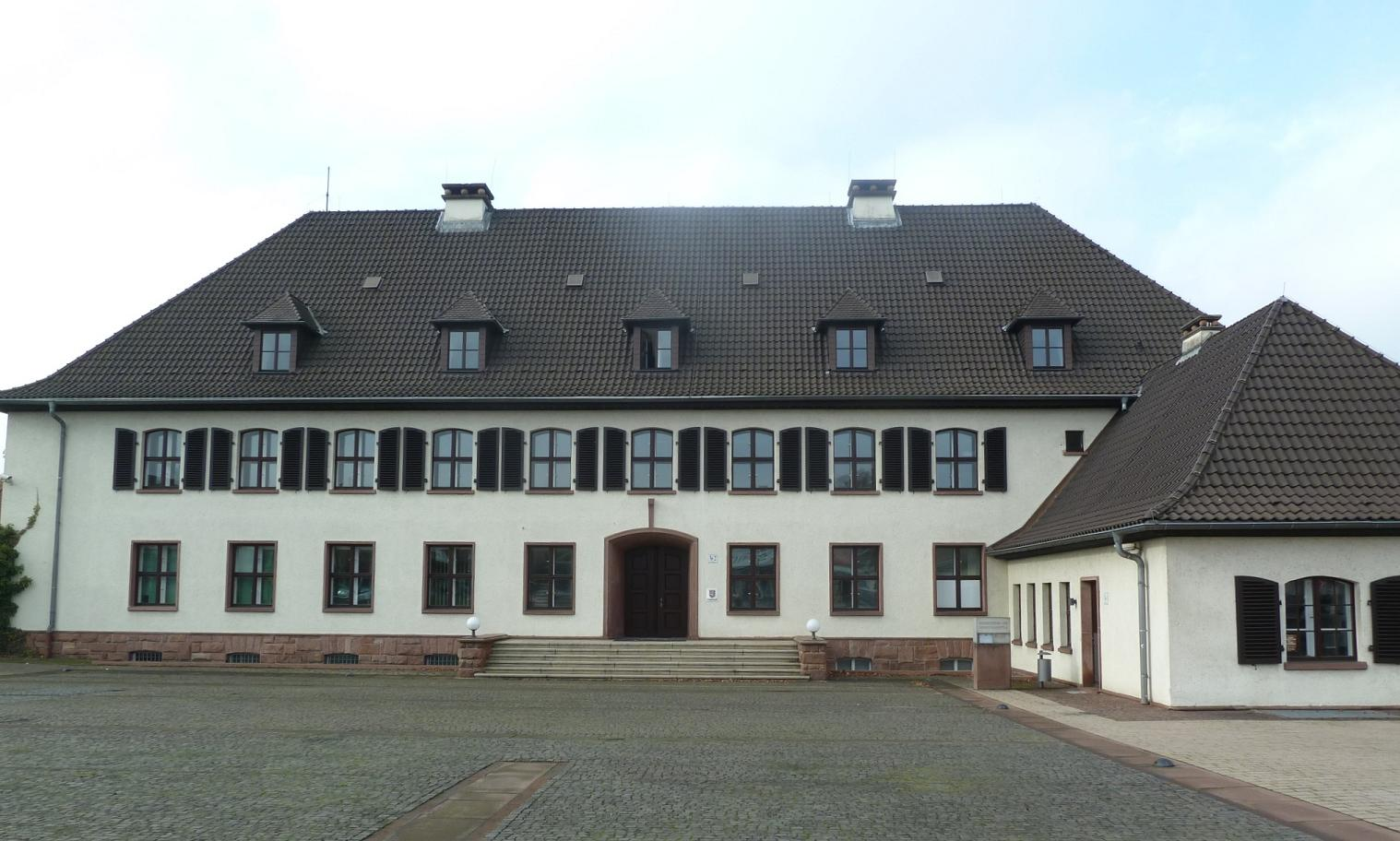 DIZ Stadtallendorf (Museum of city history), former administration building of the DAG explosives plant Allendorf.